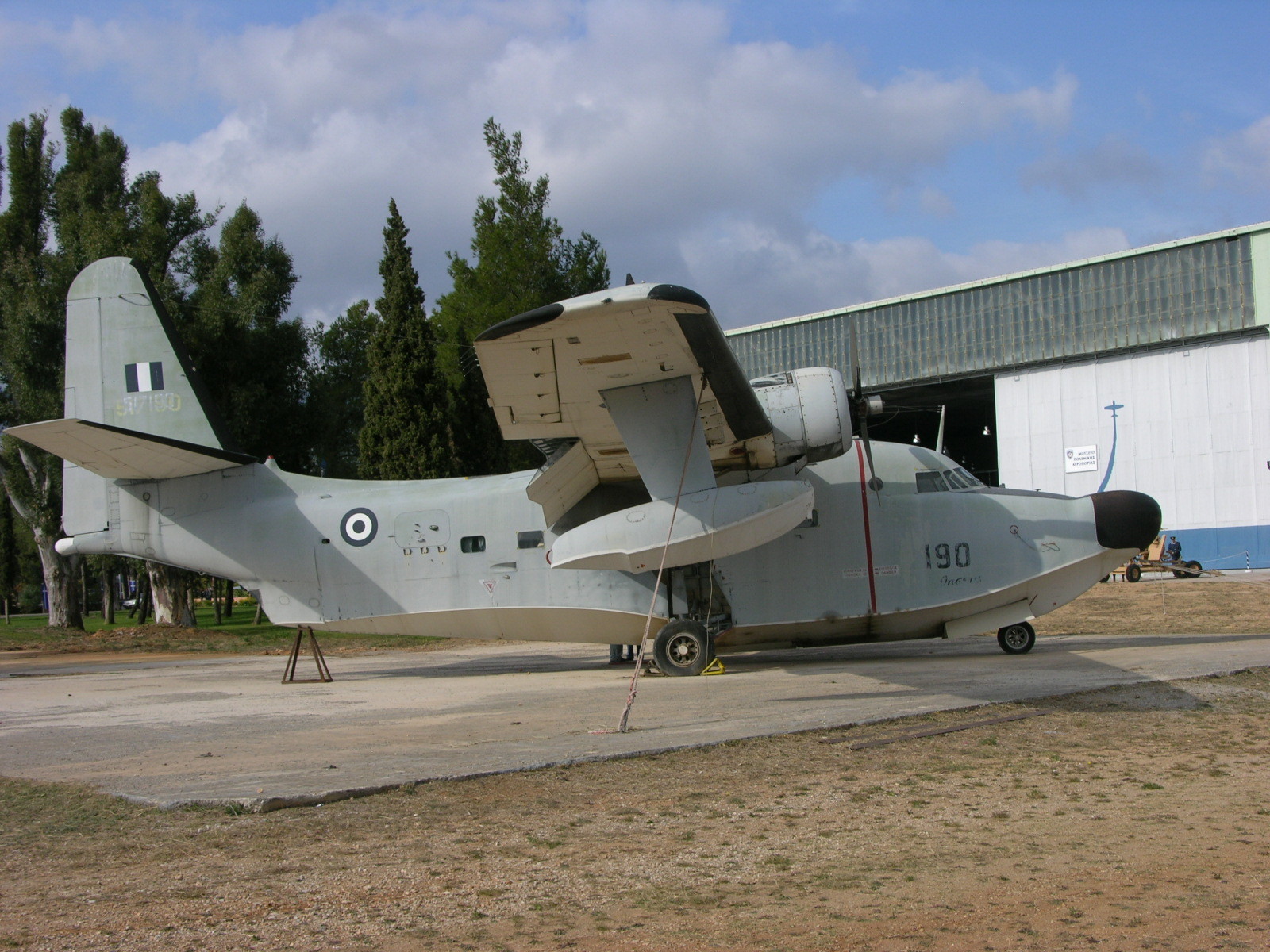 The Greeks operated the lovely old Albatross for many years and most of them are still in existence in various parts of Greece.